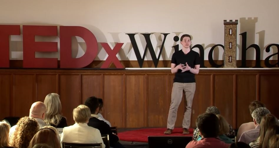 A TEDx speaker in Windham, New Hampshire in May of 2015.